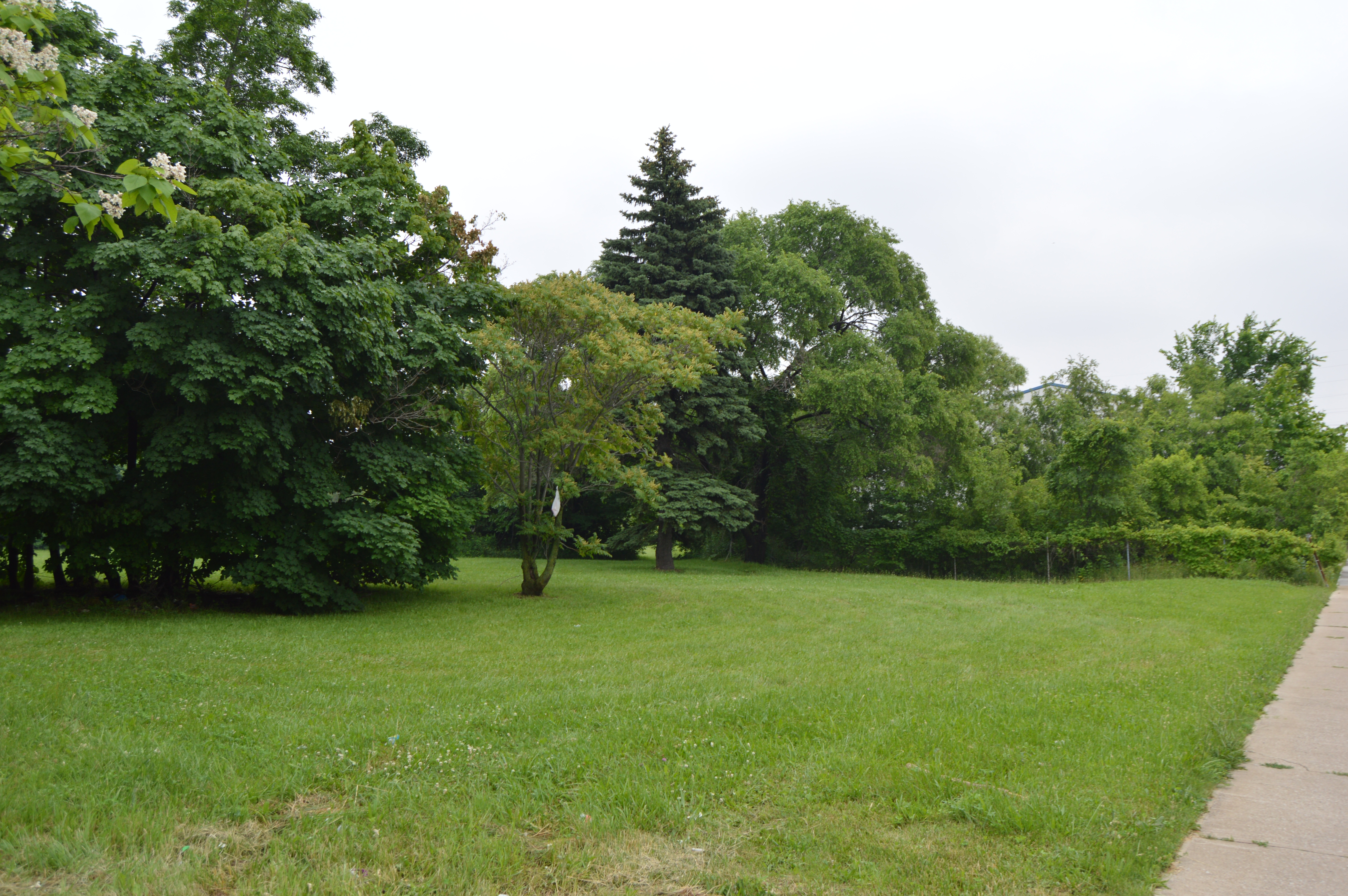 An empty lot in the 8900 block of Buckeye Road (State Route 87) in Cleveland, Ohio, United States. This was formerly the site of the Weizer Building, which was listed on the National Register of Historic Places in 1988.